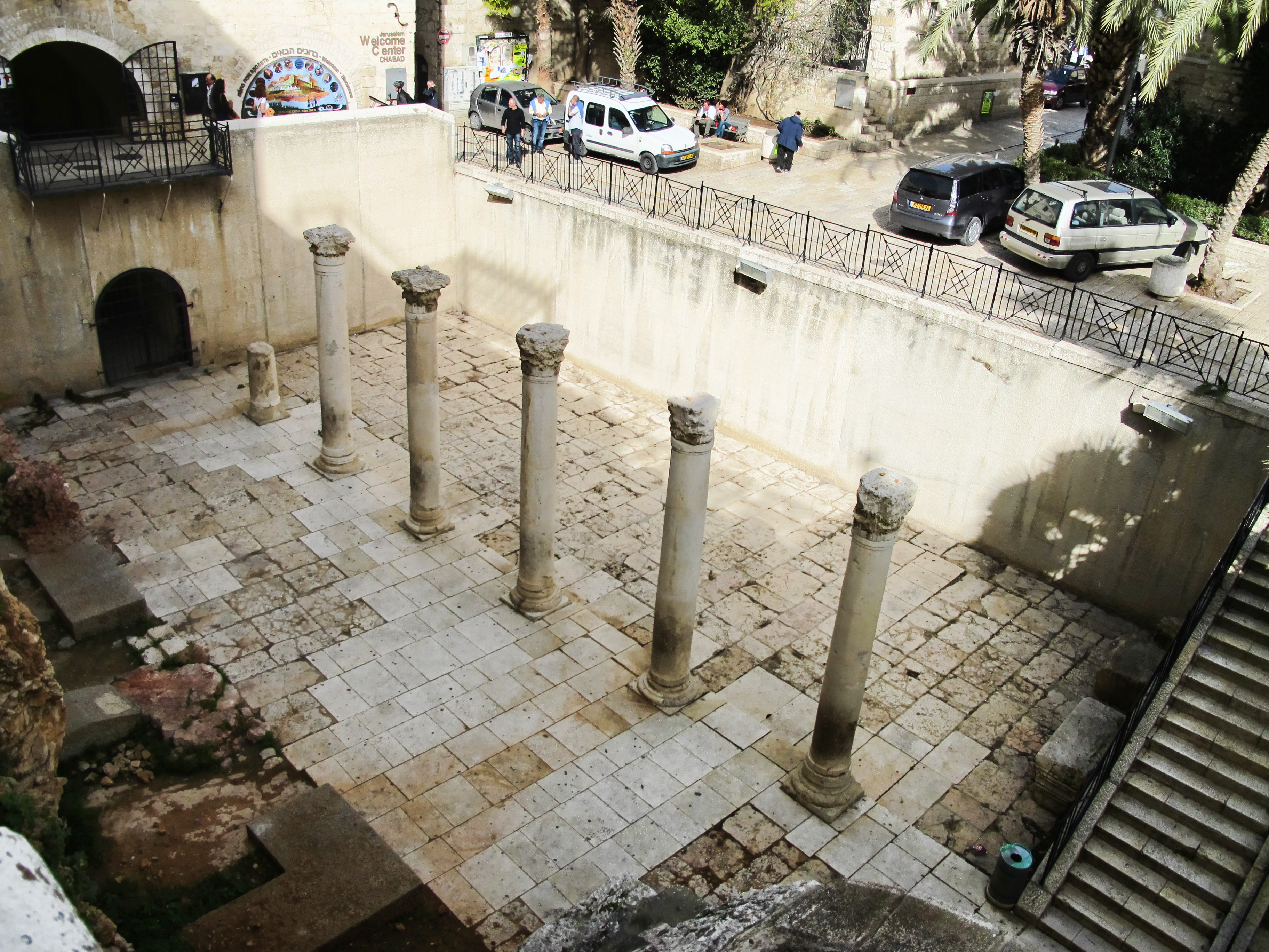 Roman columns from an earlier layer of Jerusalem settlement. Israel. 20110224 Israel 0379 Jerusalem (5540477226).jpg